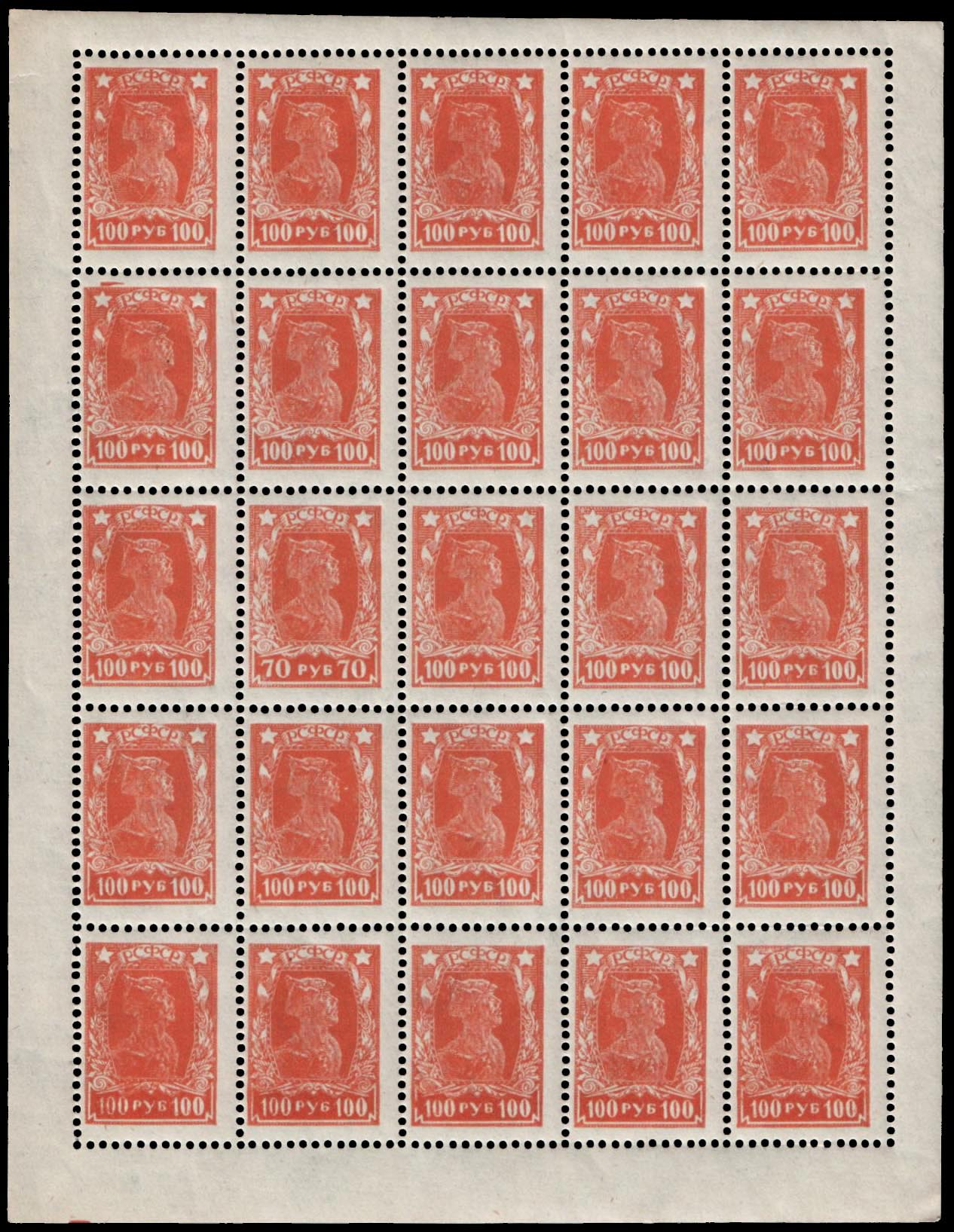 Sheet of stamps of Soviet Russia (CPA #80, 100 rubles), Red Army Soldier with one of the rarest Russian stamp (CPA #75a, 70 rubles, only 4 specimens known), 1922.